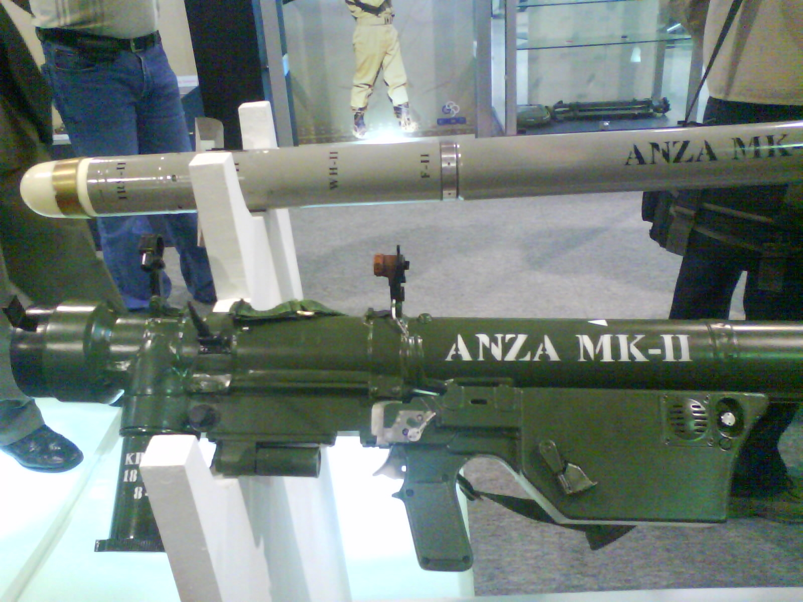 Anza MK II shoulder-fired, man-portable, surface to air missiles, under licensed production in Pakistan. Displayed at IDEAS 2008